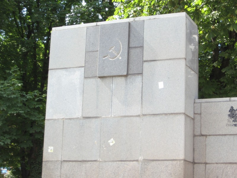 A communist era sculpture/statue at a park in Stara Zagora, Bulgaria.